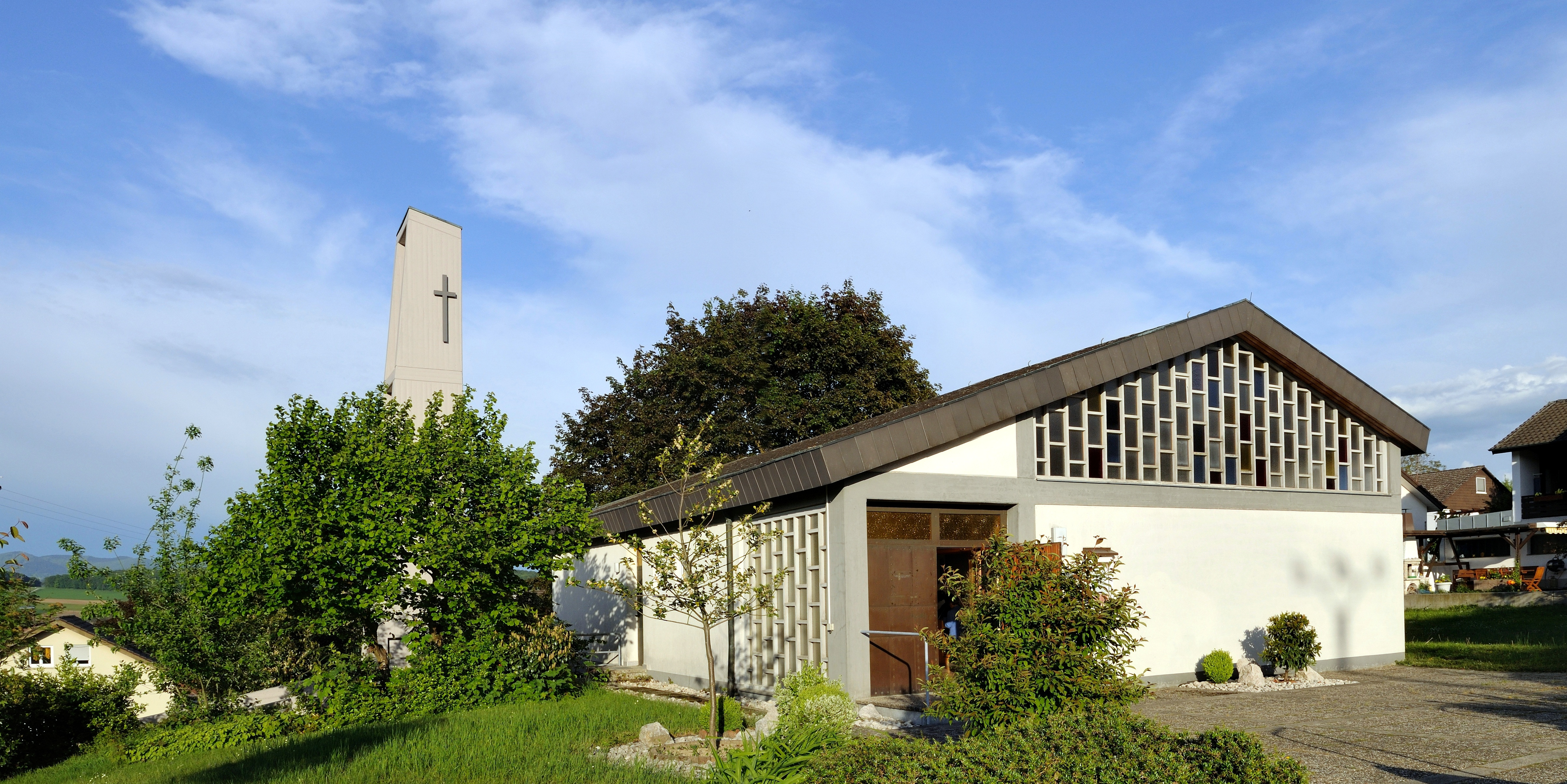 Huttingen: Saint Nicolaus Church.